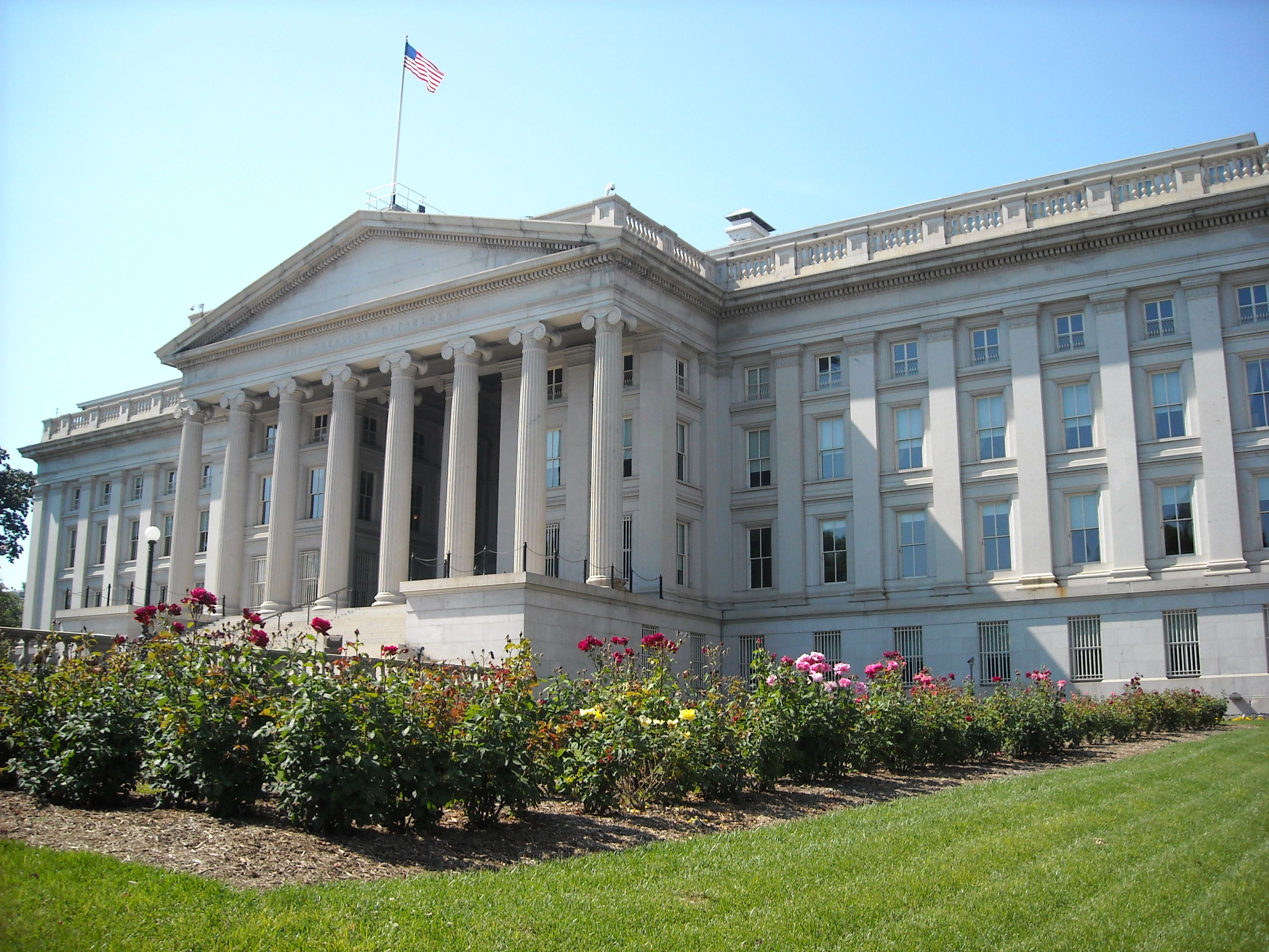 Rear view of the Treasury Department building in Washington, D.C. The building is a National Historic Landmark.